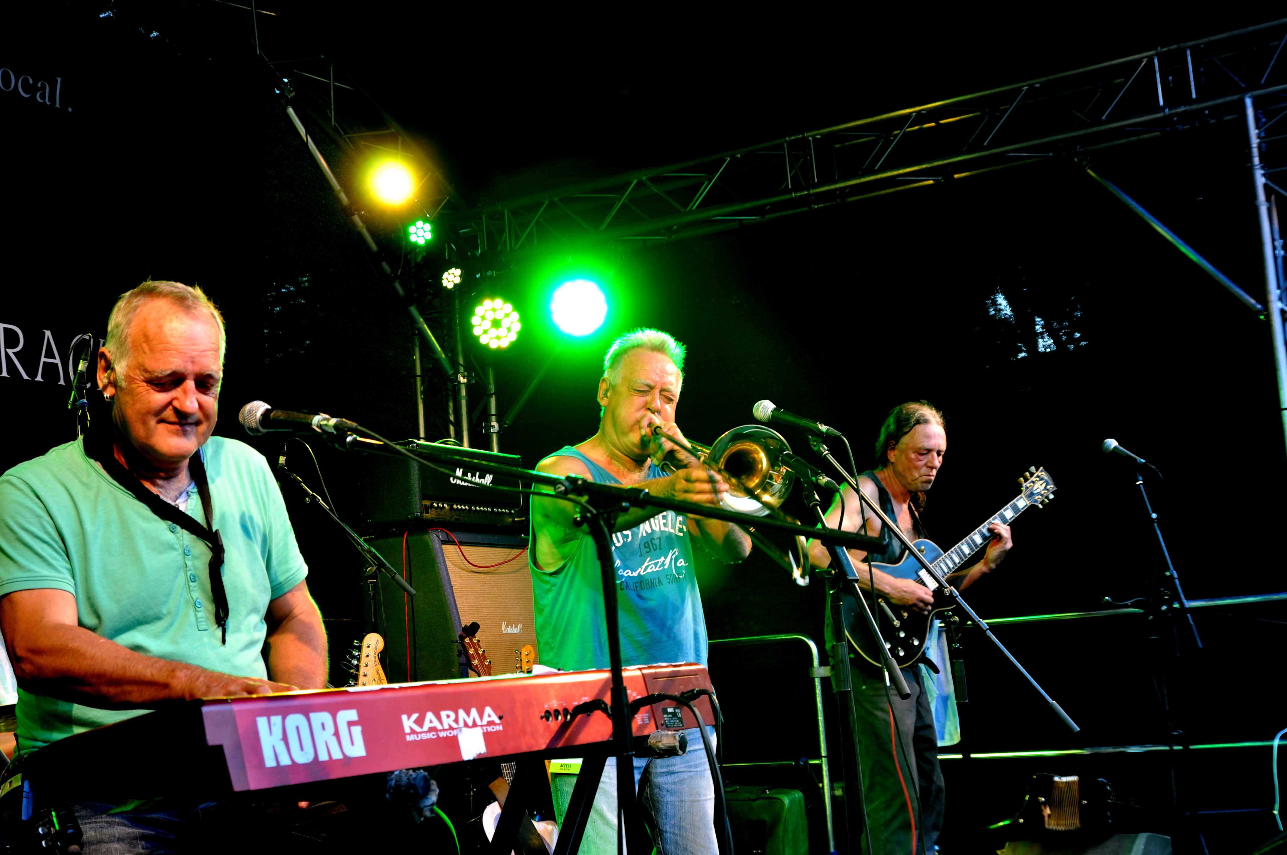 Grachmusikoff (DEU) appearance at the 2017 blacksheep festival at Bonfeld castle, Bad Rappenau, Baden-Wuerttemberg, Germany Festivalsommer This photo was created with the support of donations to Wikimedia Deutschland in the context of the CPB project "Festival Summer".